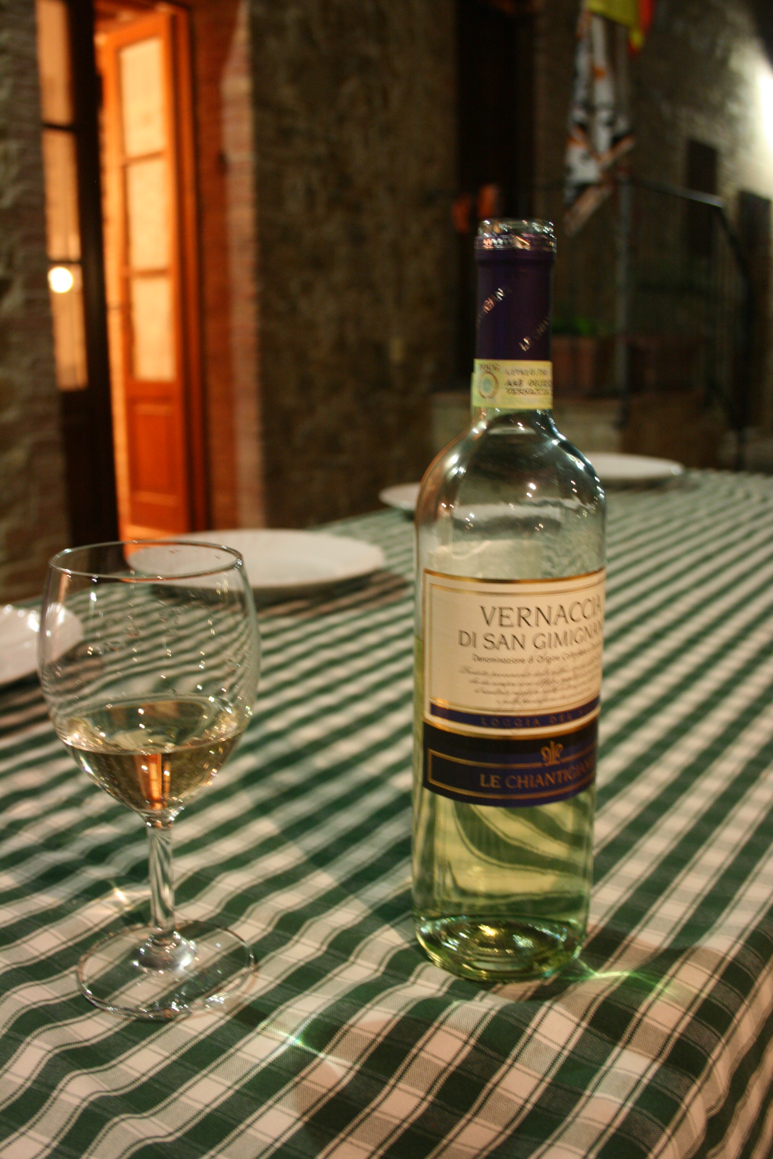 vernaccia di San Gimignano wine from Tuscany. Note: this is not the same wine as Vernaccia di Oristano which is made from a different Vernaccia grape variety on the island of Sardinia.